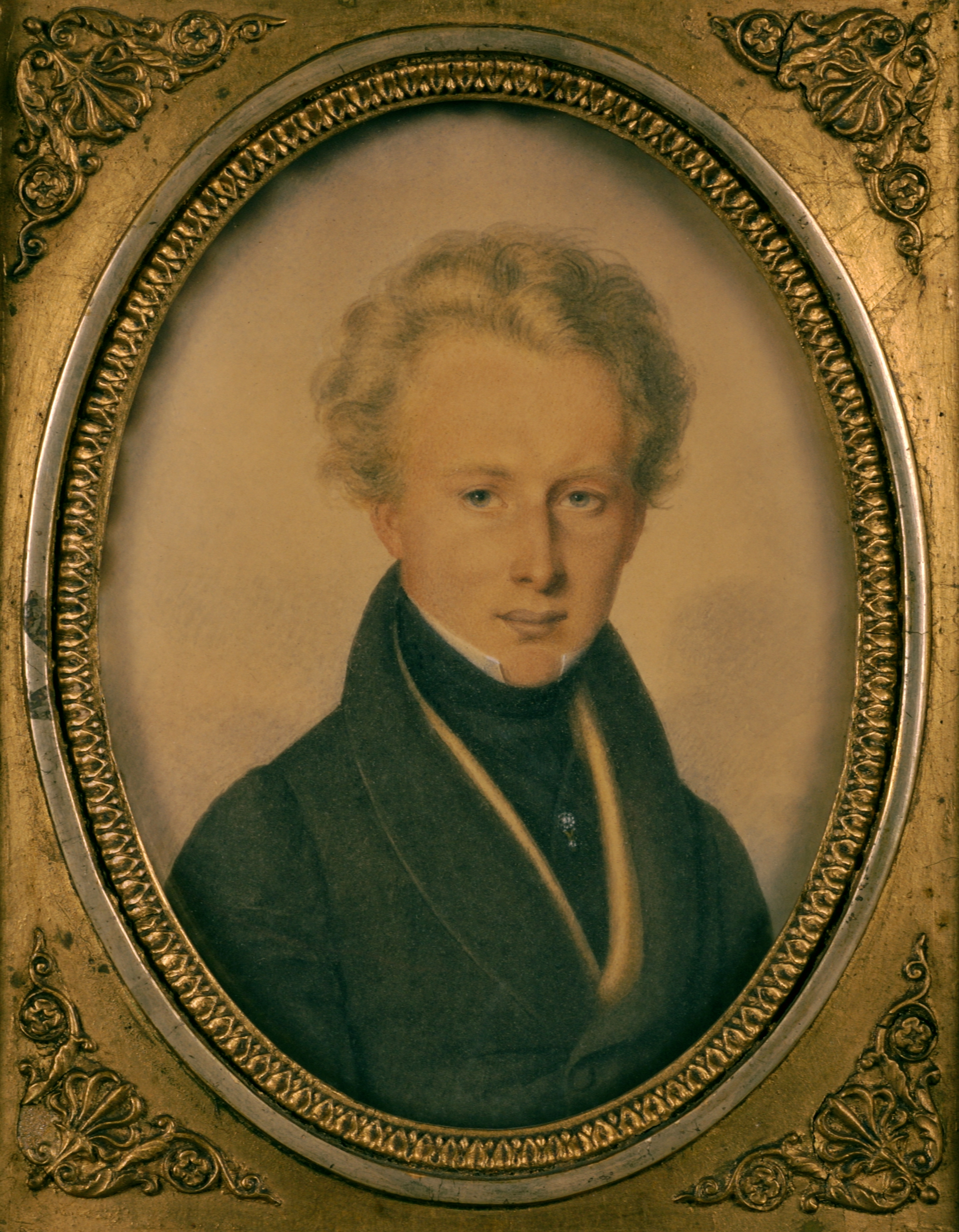 Painted portrait of Hans Cappelen (d 1846)